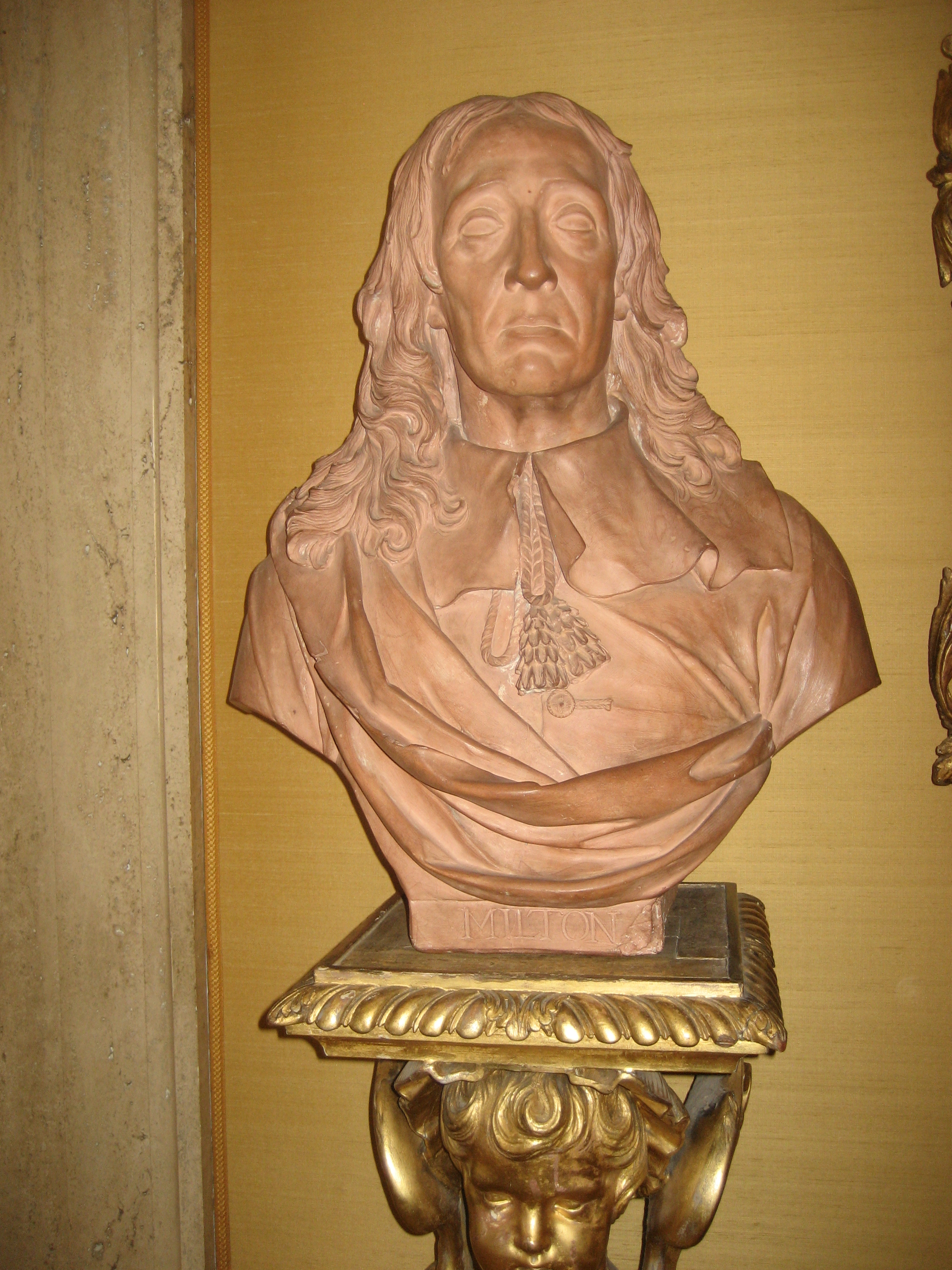 John Milton. Bust at the Fitzwilliam Museum in Cambridge, England (UK). Sculptor John Rysbrack.